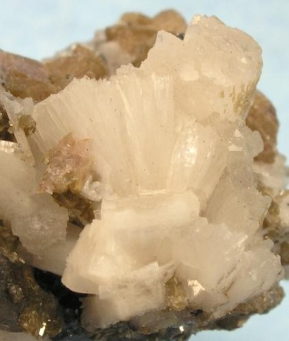 Bertrandite Locality: Kara-Oba W deposit, Betpakdala Desert (Bet-Pak-Dal Desert), Qaraghandy Oblysy (Karaganda Oblast'), Kazakhstan (Locality at ) Size: 4.7 x 3.8 x 3.6 cm. Lustrous white blades of Bertrandite, up to about .8 cm, resting on and intermixed with numerous rhombs of pinkish-brown Rhodochrosite. There are also Pyrite cubes, micro Mica, Quartz, and a tungstate, possibly Wolframite. An excellent, and quite classic, combination specimen from a well-known locality. Ex. Charlie Key stock.